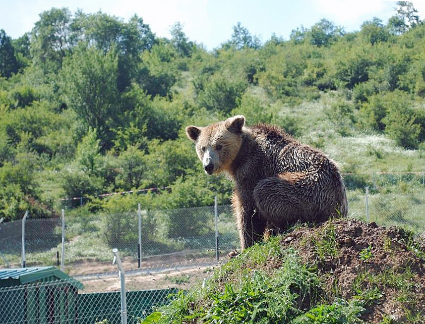 Depicted is the brown bear Kassandra rescued from Dulje Pass. Kassandra is now one of the bears of the Bear sanuctuary Pristhina